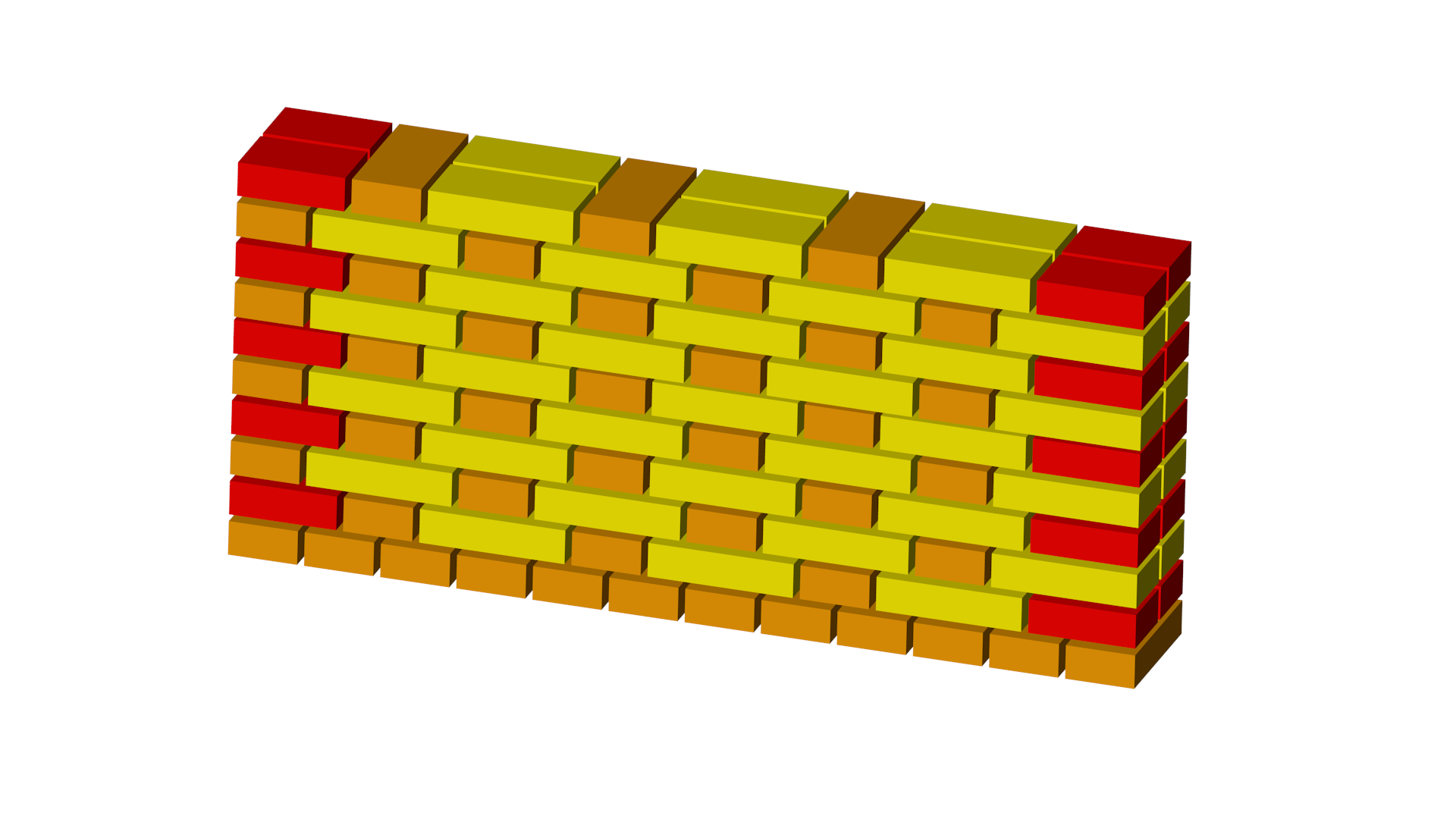 Flemish bond